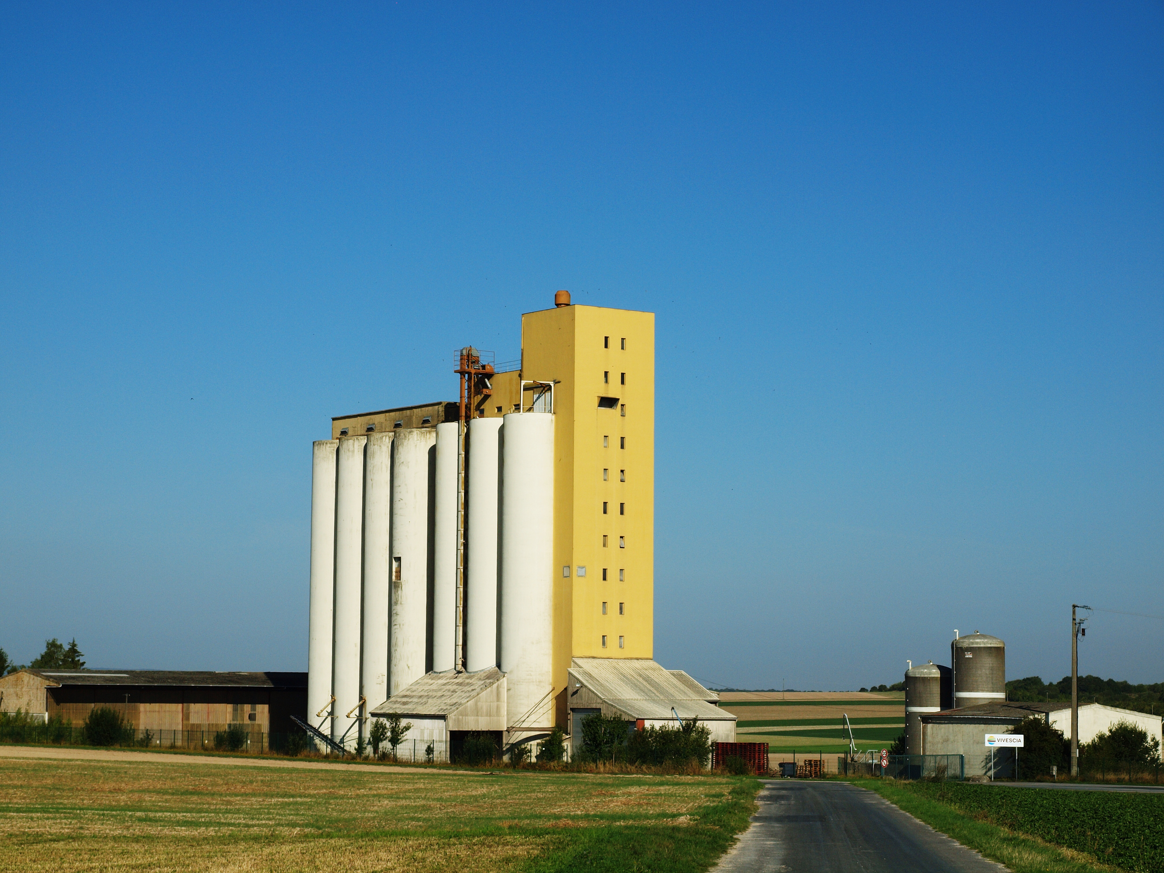 Cuperly (Marne, France) ; silos céréaliers bâtis par l'Union champenoise de producteurs de Châlons-sur-Marne.